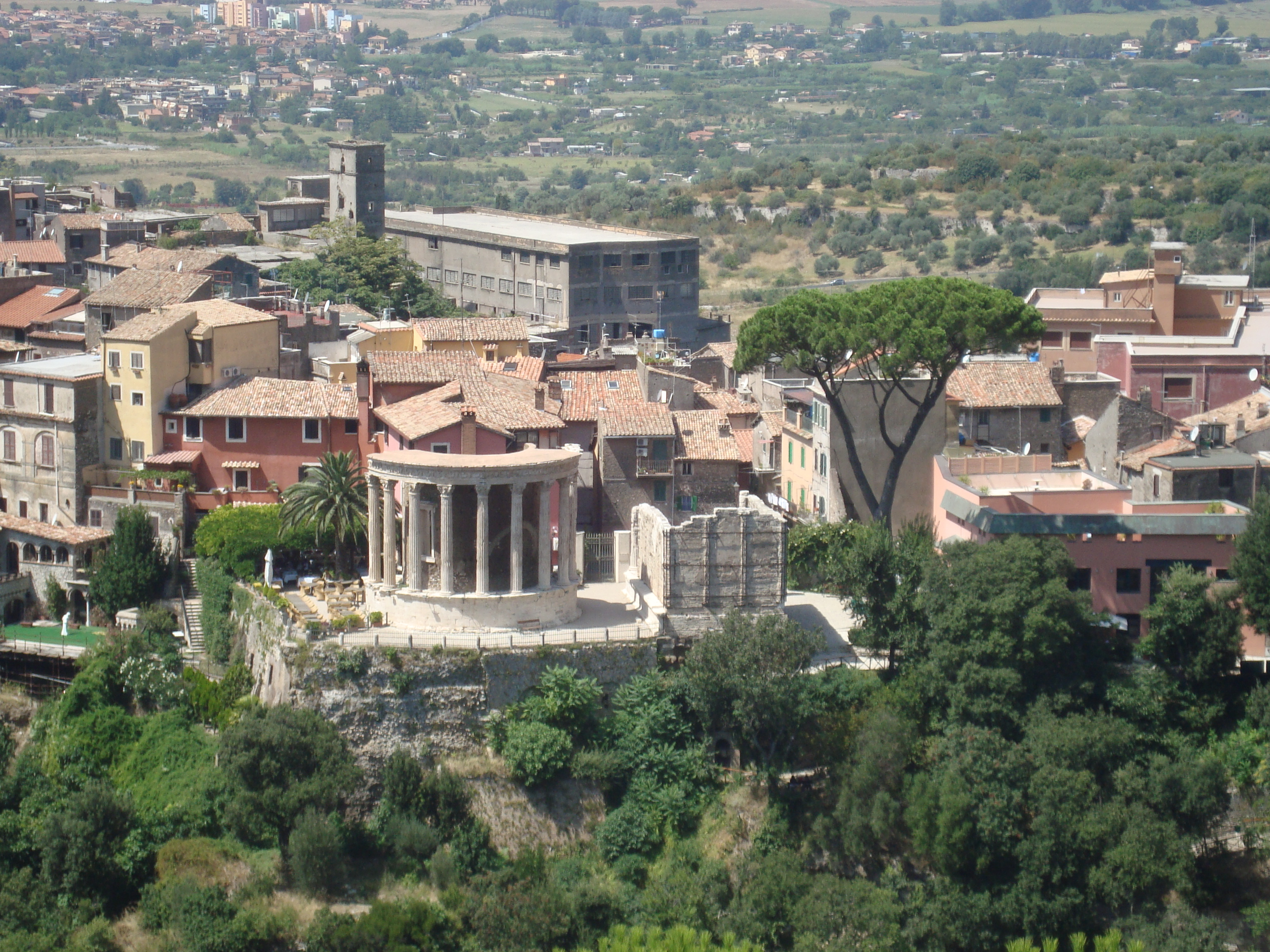 General view of the temple of Vesta (left) and the temple of Sibyl (right) in Tivoli.